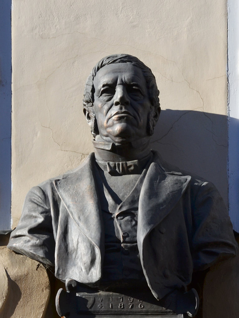 Bust of František Palacký by J.V. Myslbek